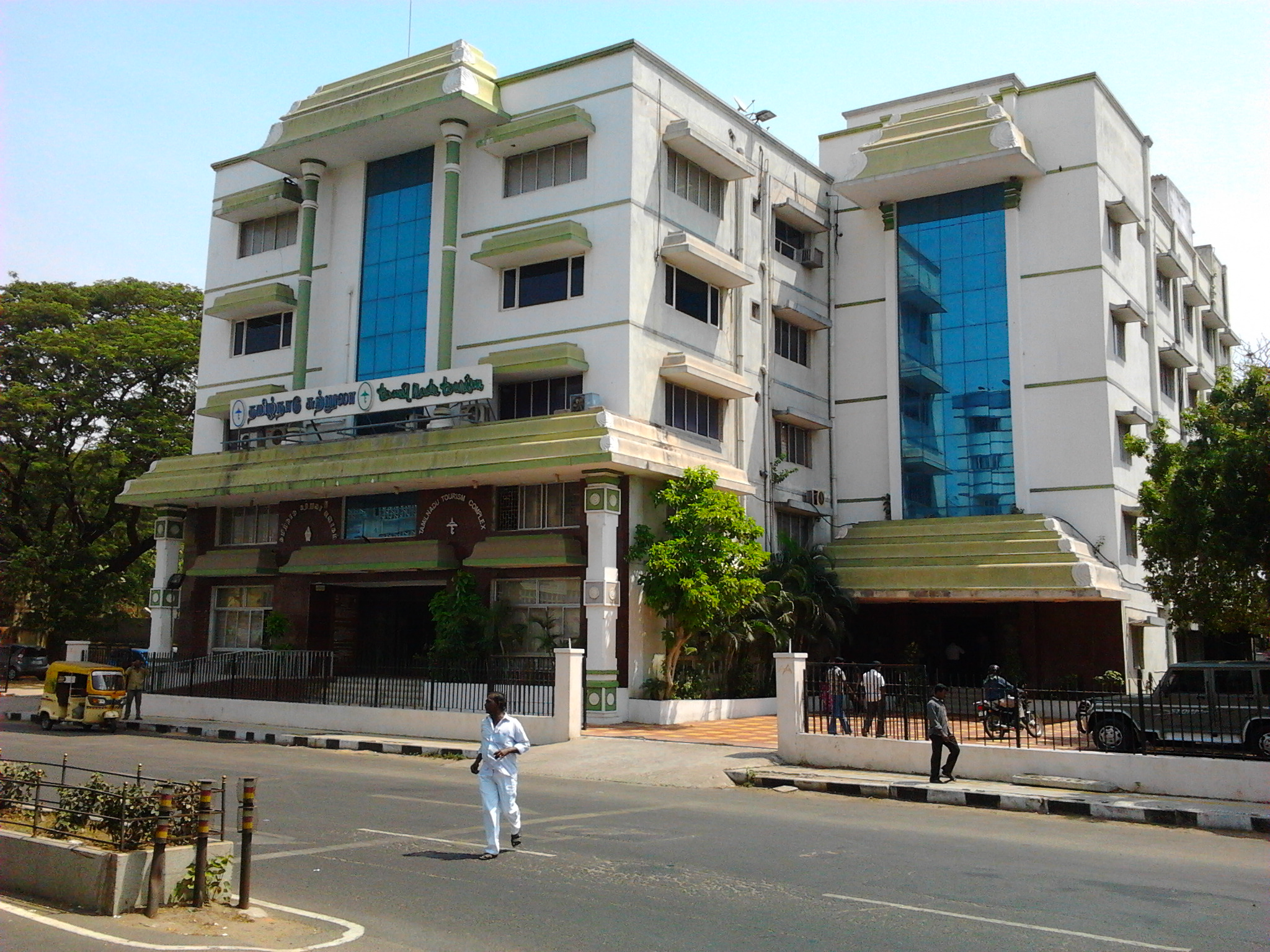 Photoed using Samsung Wave 525.